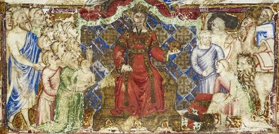 Miniature of an enthroned king, from a 14th-century manuscript of the Arthurian romance "Meliadus or Guiron le Courtois" (part of the romance also known as "Palamedes"). The first part of the romance of Guiron le Courtois begins on fol. 3r, and breaks off in mid-sentence on fol. 352v. The miniatures, by several Neapolitan artists with French influence, were produced for Louis I of Naples. This miniature is taken as showing his portrait, enthroned, with the "knot" emblem of his chivalric "Order of the Knot" (founded 1352).